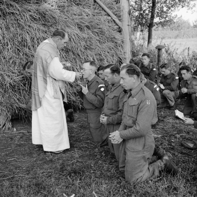 The British Army in North-west Europe 1944-45 Father C V Murphy carries out Mass in a Dutch field in the front line, 6 October 1944.